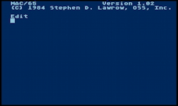 Mac/65 1.02